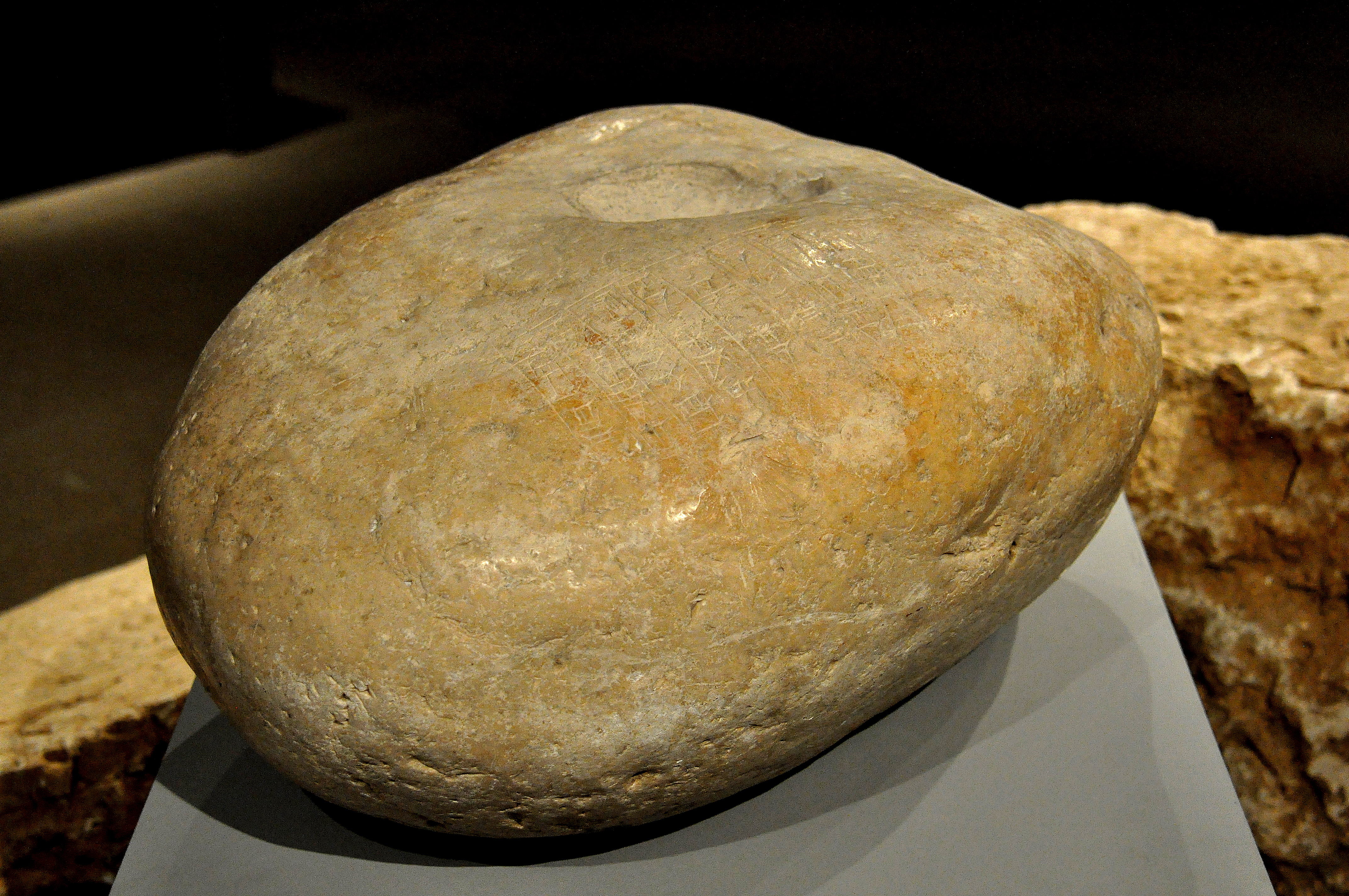 The cuneiform inscriptions on this door socket mention the name of the Kassite king Kurikalzu. Kassite period, 14th century BCE. The Sulaymaniyah Museum, Iraq.